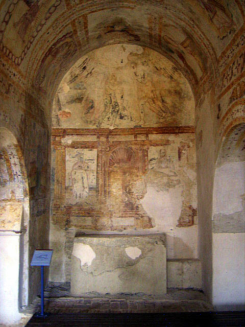 Roman Ruins of Villa Áulica and Convent of São Cucufate - Altarpiece in the former roman grain store created by José Escovar - Vidigueira/Portugal